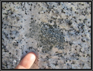 xenolito